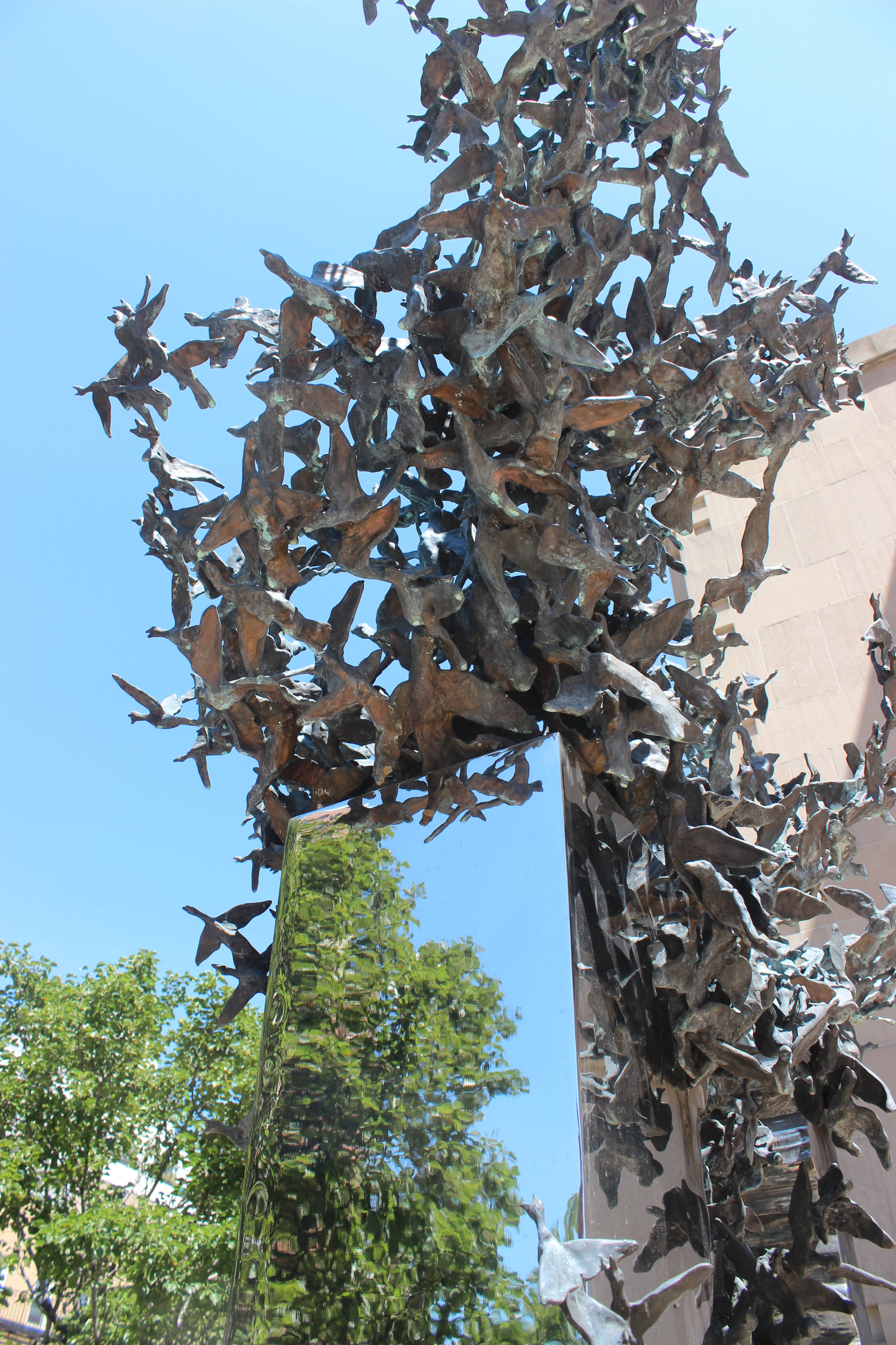 Migrations sculpture (Michael Aram)